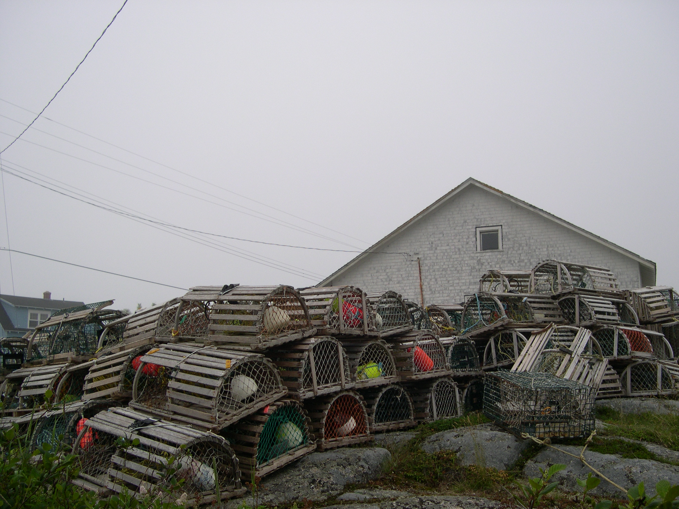 Lobster traps, Peggy's Cove, Nova Scotia, Canada